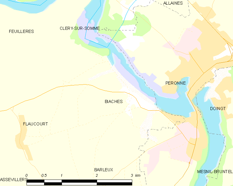 Map of French municipality Biaches